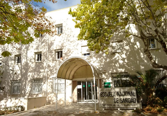 Entrance to the main building of the National School of Public Health (Spain)